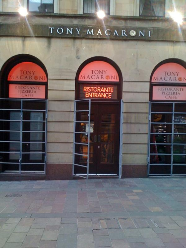 Picture of the glasgow Tony Macaroni restaurant, taken by a friend using an Iphone. There is no copyright laws on this image, feel free to use!